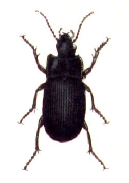 Abax carinatus, from Calwer's Käferbuch, Table 6, Picture 4. Taxonomy was updated to 2008, using mostly the sites Fauna Europaea and BioLib. Please contact Sarefo if the determination is wrong!